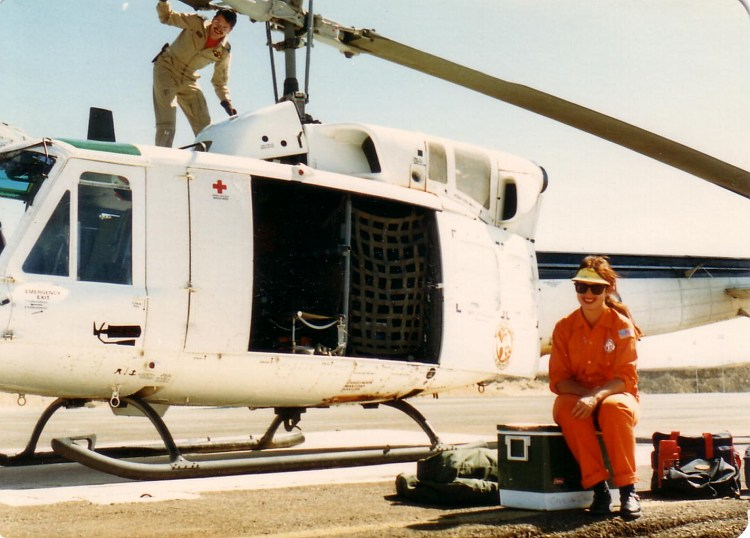 I took this photo a Canadian CH135 helicopter and an MFO observer at South Camp in 1989.